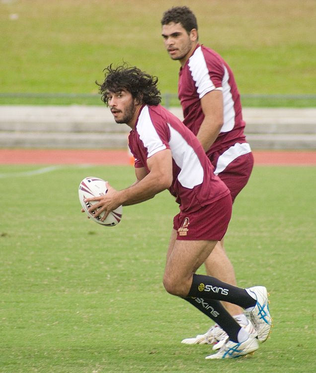 Johnathon Thurston, the best player in the world, and Greg Inglis, another of the best players in the world, at training for State of Origin, Cairns, Australia.